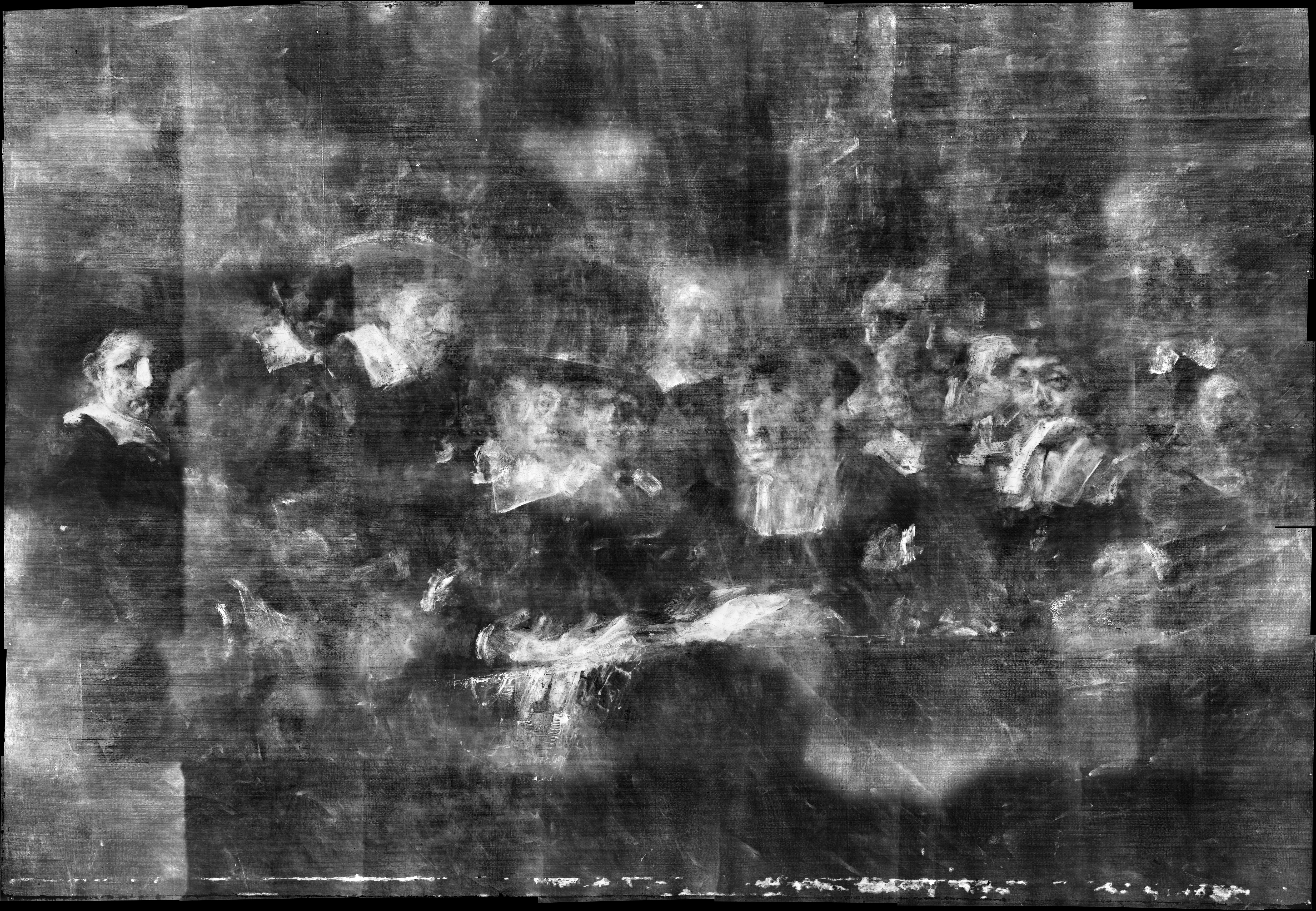 Rembrandt painting X-Rayed (1949-1955)